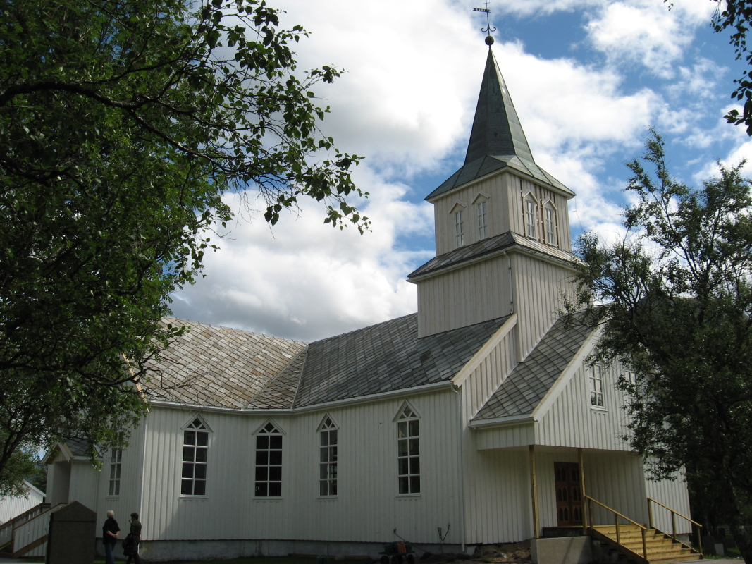 Fore church in Reipå, Meløy, Norway (July 16, 2008)